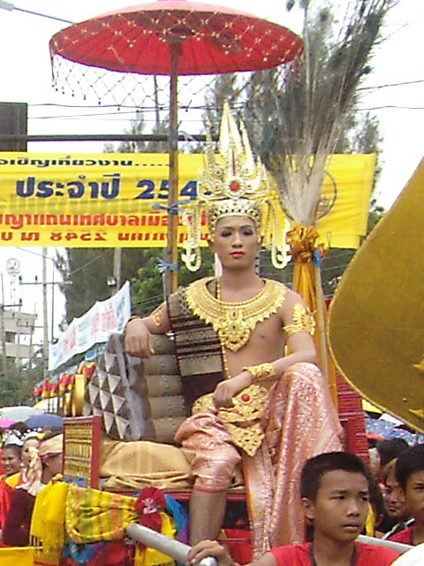 Phangki, son of Naga King